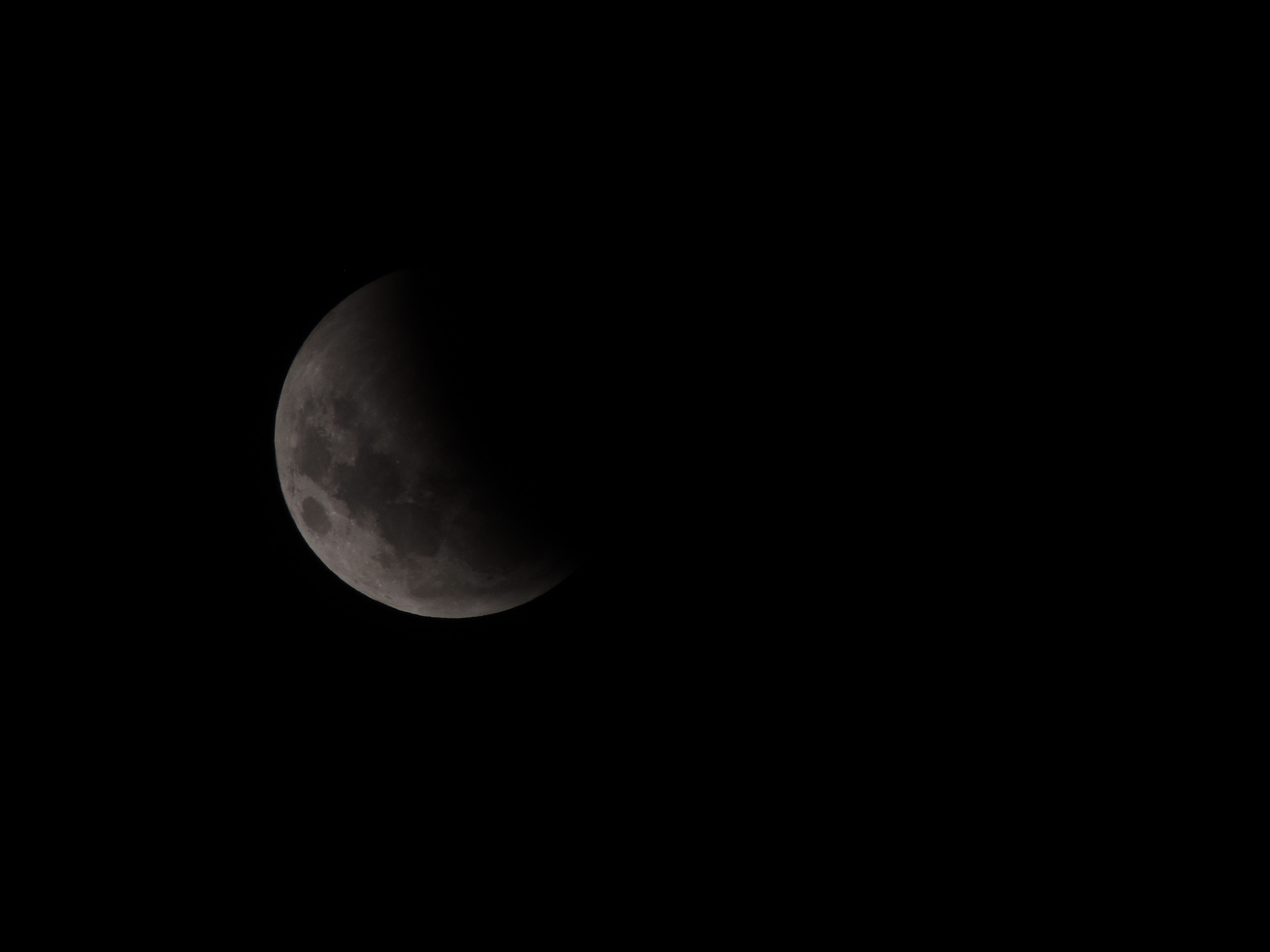 The lunar eclipse of the 21st of January 2019 as seen from M.B Gonnet, Buenos Aires, Argentina.